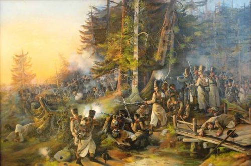 This is a photo of Belarusian heritage monument. Reference number: 423Ж000023 ( WLM)